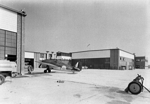 The Grumman Aircraft Engineering Corporation at Bethpage, Long Island (USA), on 12 October 1940. The aircraft visible is most probably a G-36A. This was the export version of the F4F Wildcat for France. After the defeat of France in June 1940, all contracts were taken over by Britain. The planes were reequipped with British/US equipment and gun by Blackburn and renamed Martlet Mk.I.